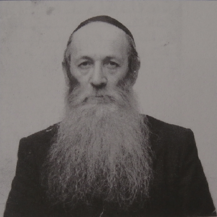 ISRAEL YAKOVSON